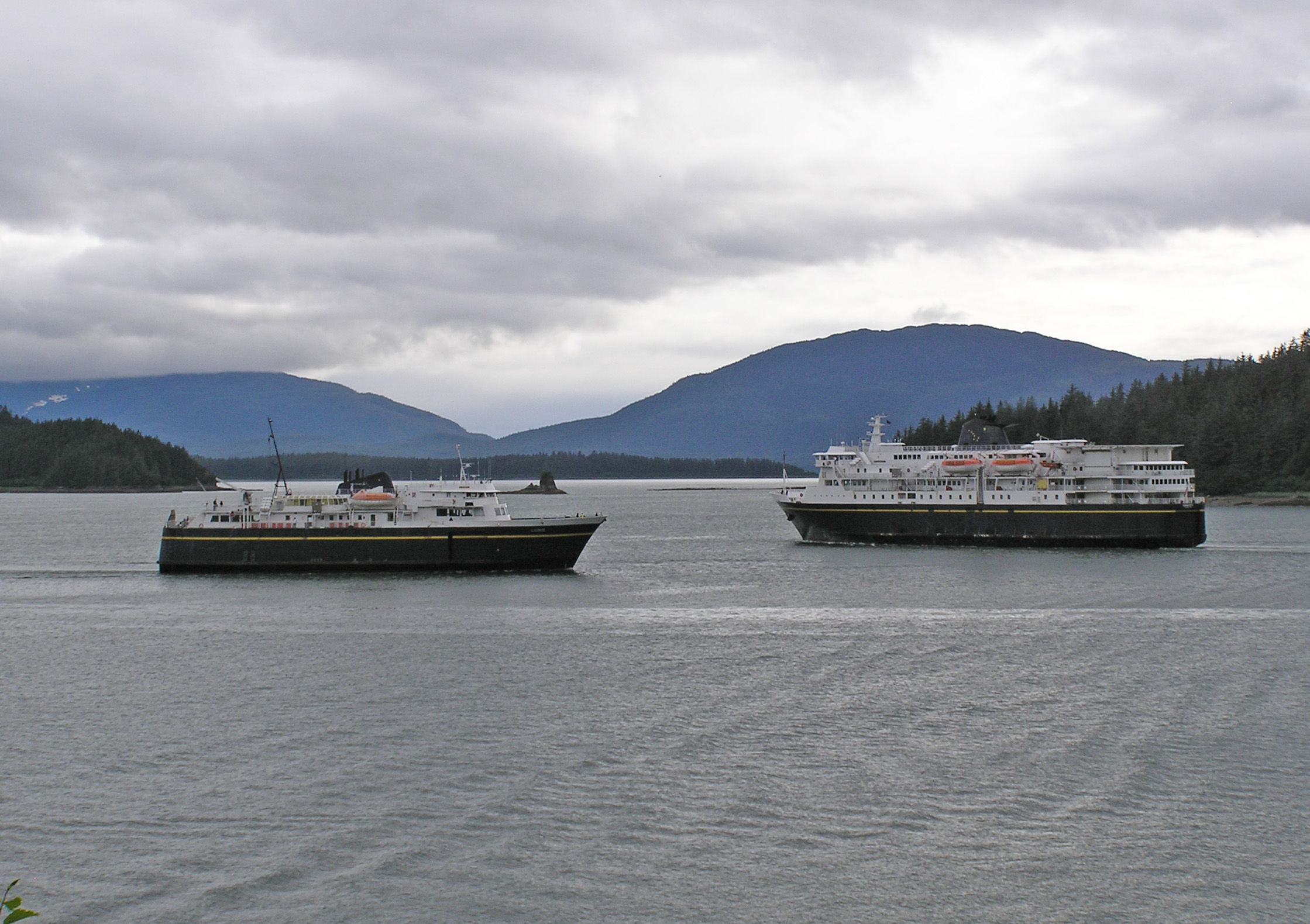 Alaska Marine Highway System in approaching Terminal Auke Bay.